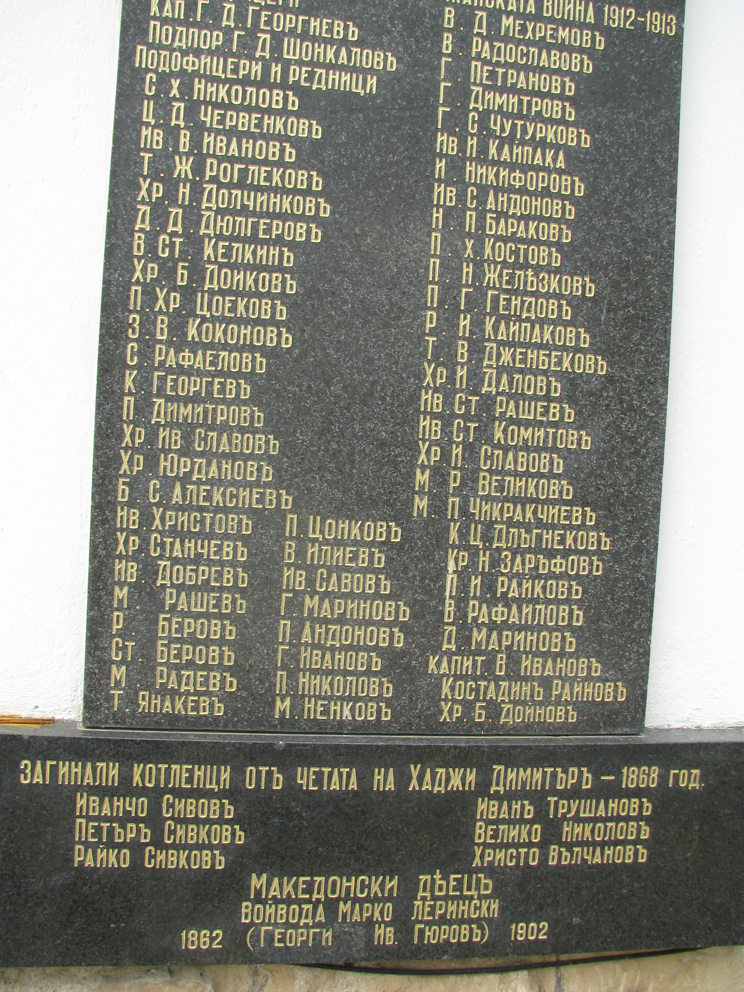 Memorial plaque in Kotel, Bulgaria